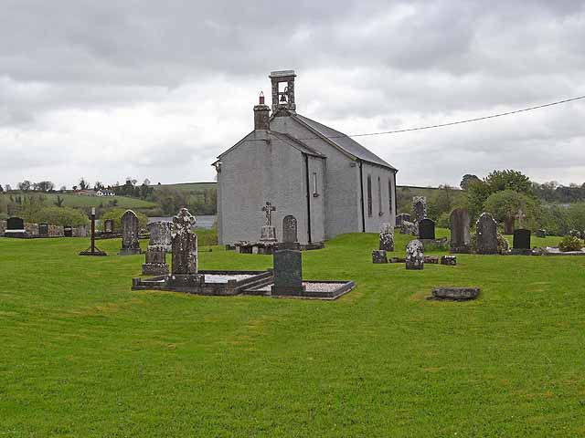 Drumreilly Church of Ireland. The Church of Ireland in the parish of Drumreilly stands on a remote peninsula on the north shore of Garadice Lough. It was built in 1737 to replace the church on Church Island H1811. The parish is extensive - the Catholic Church of Drumreilly parish 484746 stands 6km away beyond the southern shore of the lough.